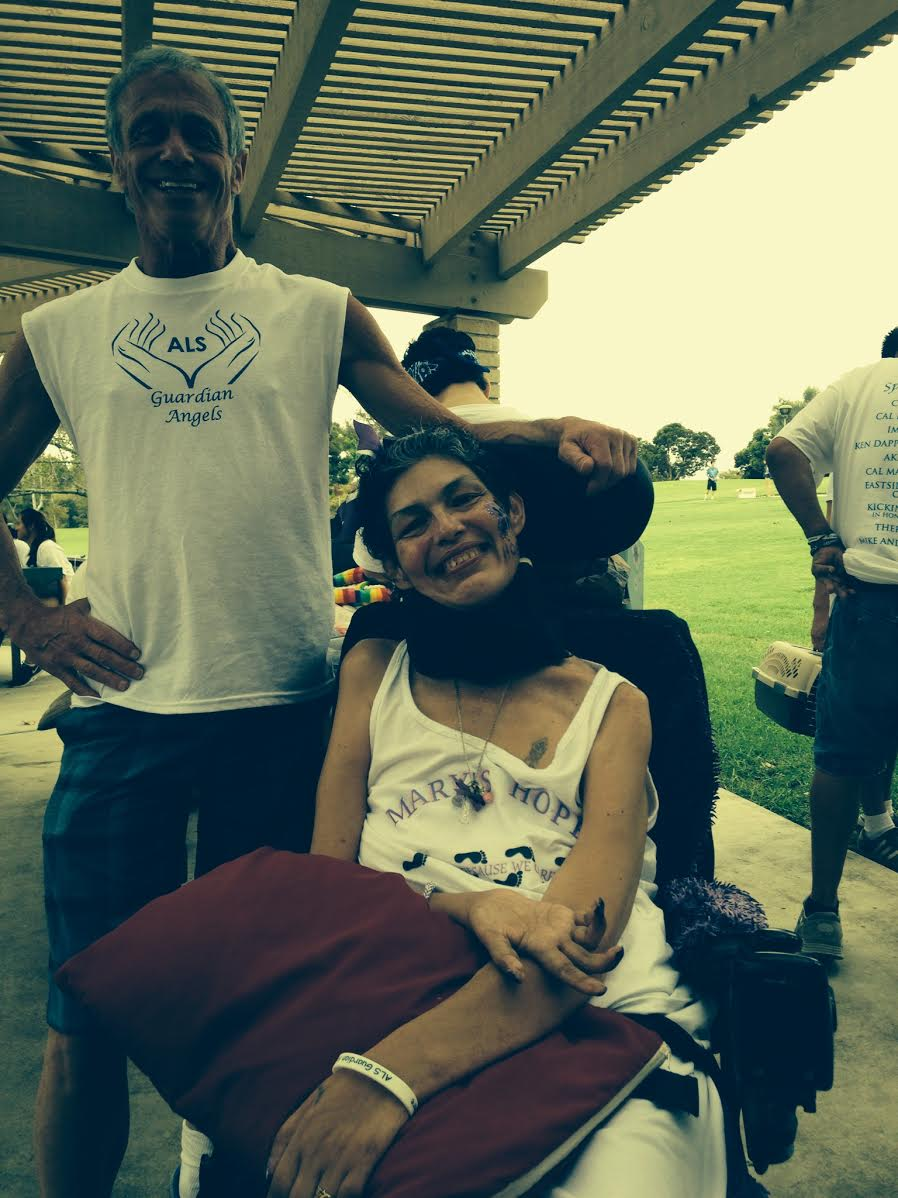 Stuart Millheiser with an Amyotrophic lateral sclerosis patient